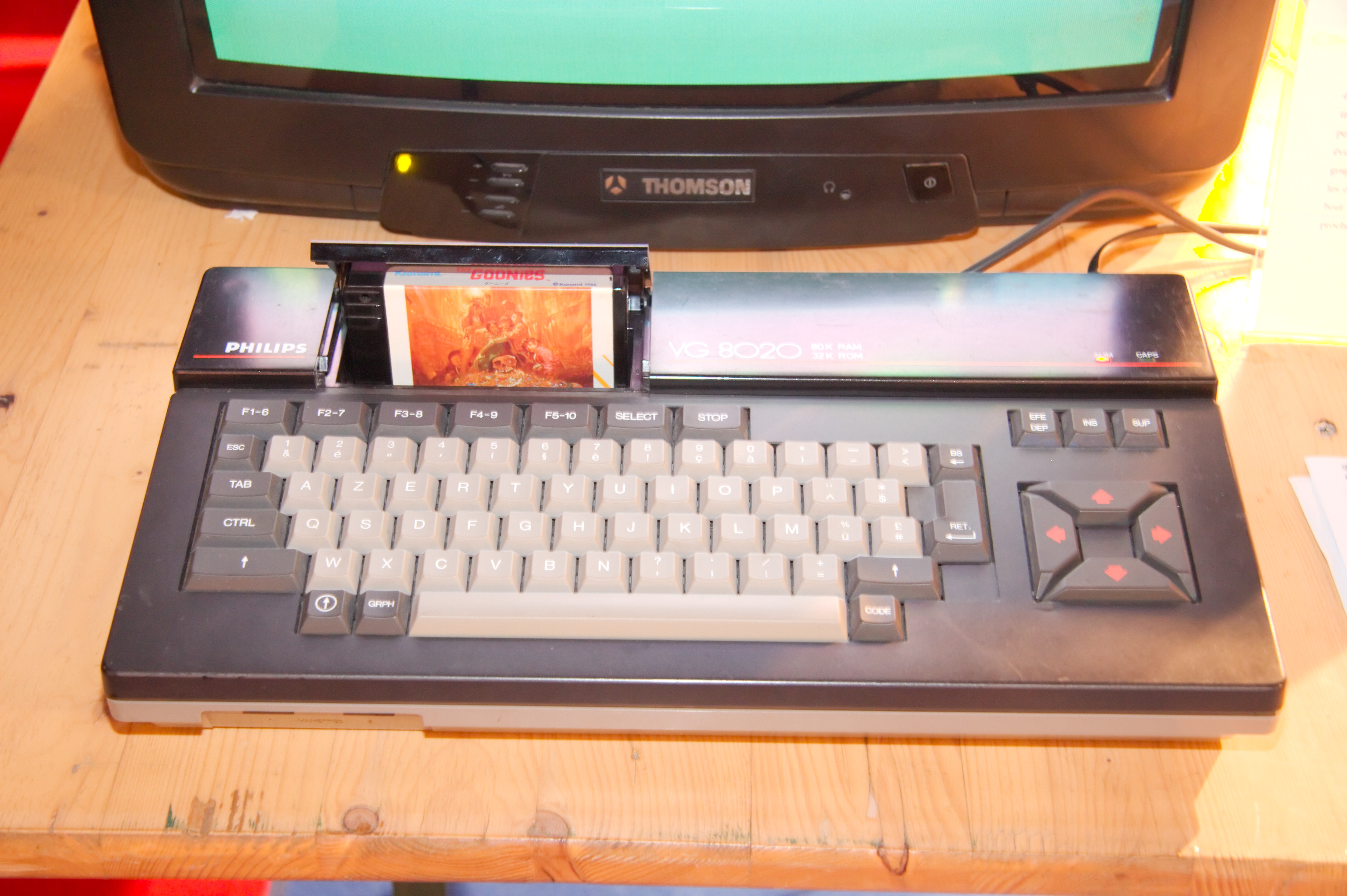 VG-8020 (Philips MSX) with The Goonies cartridge; Festival du jeu vidéo 2008 (video game festival) (Paris, France).